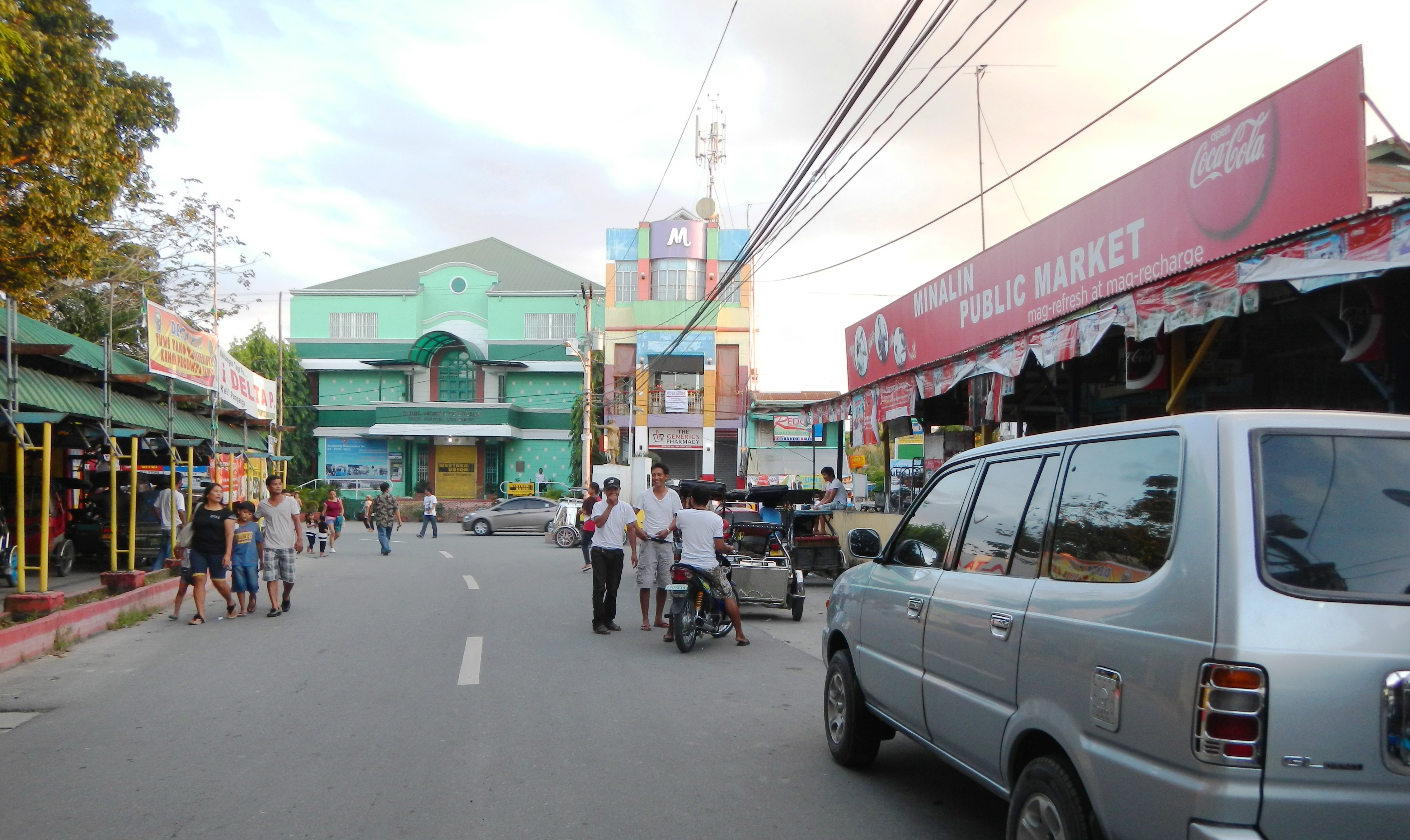 Minalin, Pampanga[1]